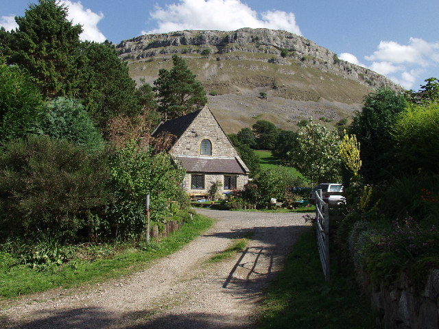 Converted Chapel at Eglwyseg. One of the many chapels that have been converted into private houses over recent years. The crags of Eglwyseg mountain loom in the background.